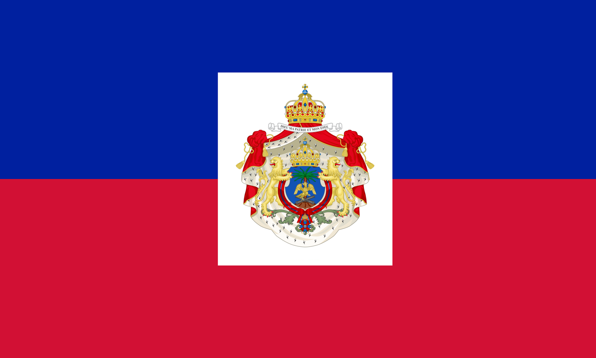 Flag of the Empire of Haiti (1849-1859)